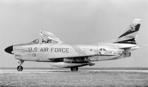 F-86D Serial 52-3900 of the 440th Fighter-Interceptor Squadron, Erding Air Base, Germany, 1956 Source: United States Air Force